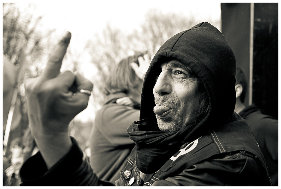 From the Anti Atom demo in Berlin